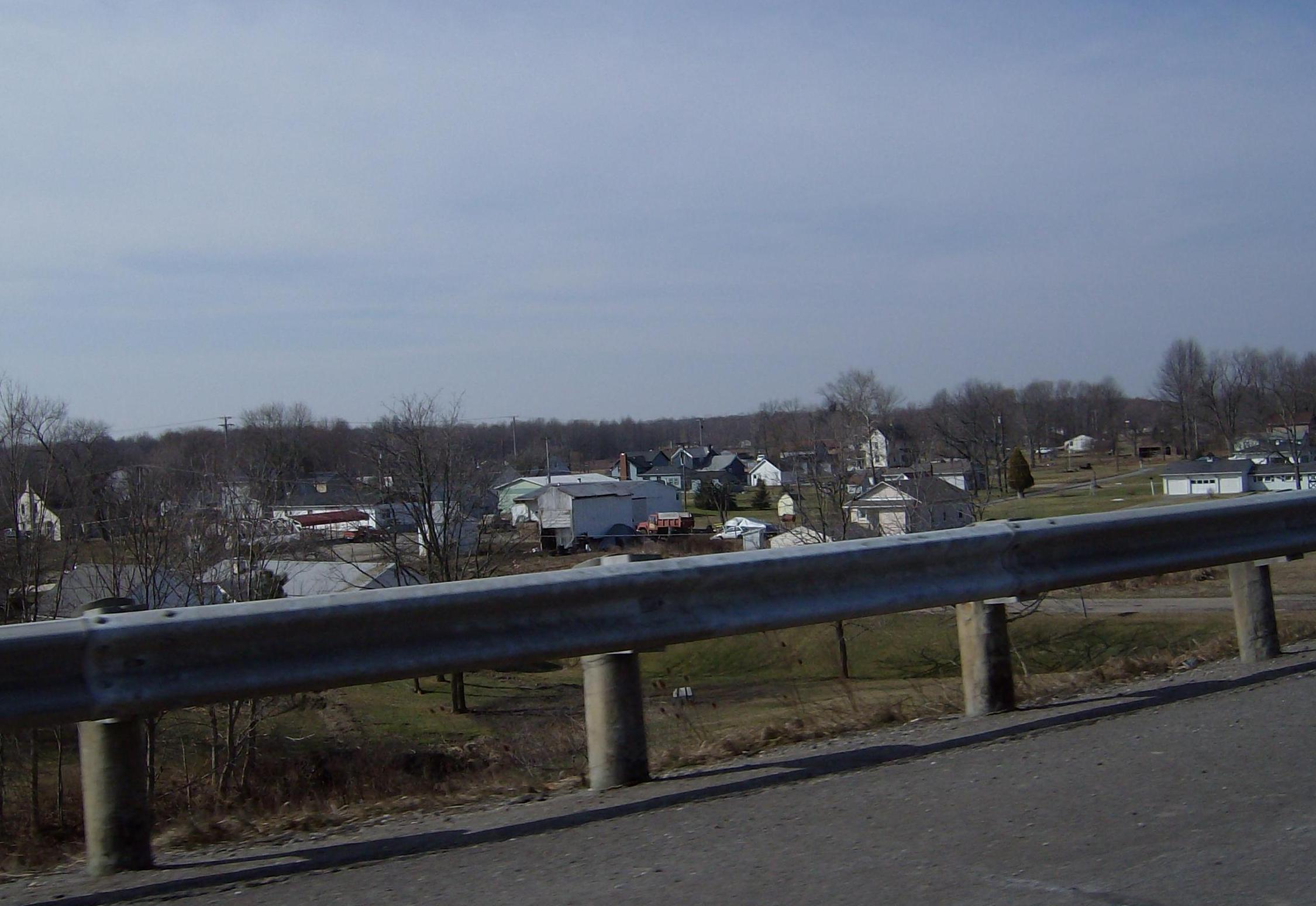 View of the unincorporated community of Diamond, located in Palmyra Township, Portage County, Ohio, United States. Picture taken from Interstate 76.